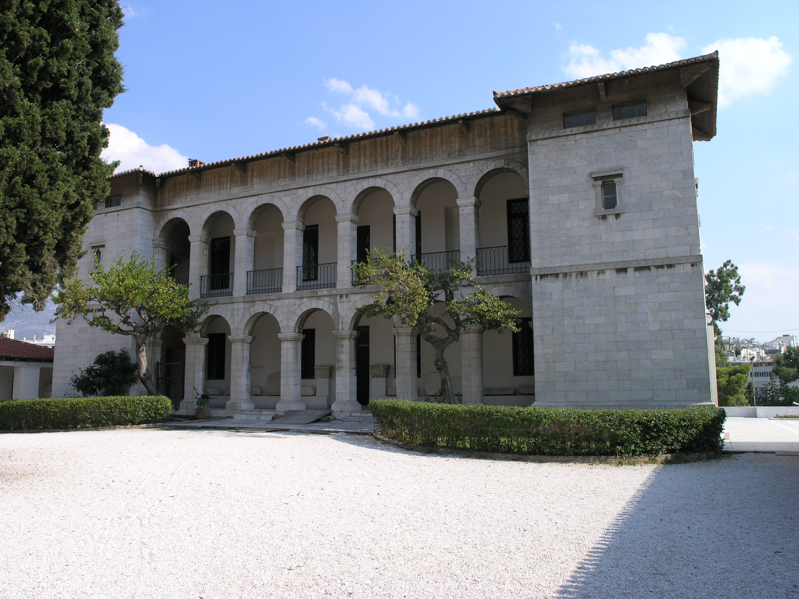 Villa Ilissia : the residence of the Byzantine and Christian Museum in Athens, and its main building until 2004 and the opening of the museum's underground extensions.